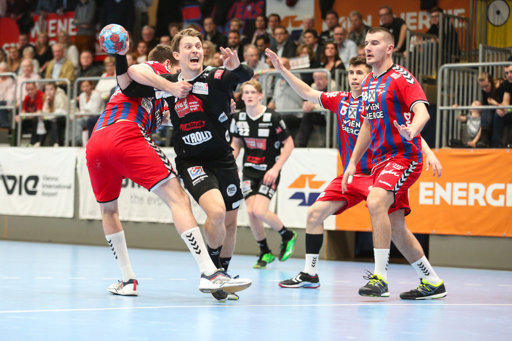 Matias Helt Jepsen during the first semifinal of the Handbal Liga Austria Season 2016/17